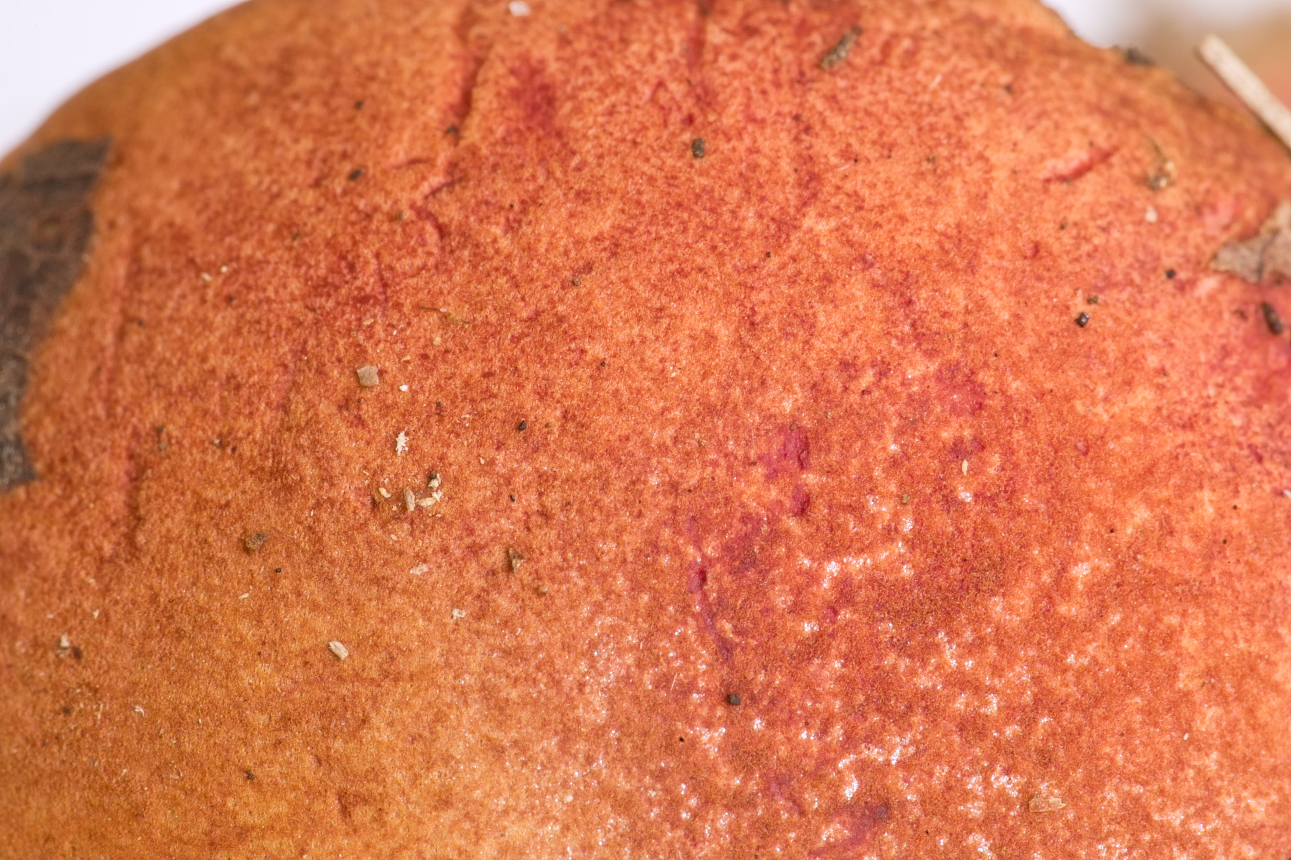 Rubinoboletus rubinus